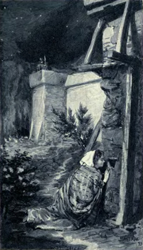 1900 Illustration by V. Jastrau for Aucassin og Nicolete in danish. Biliography : Sophus Michaëlis (Editor) (ill. V. Jastrau), Aucassin og Nicolete : En oldfransk kaerligheds-roman fra omtrent aar 1200, Kobenhavn, Reitzelske forlag (George C. Grøn), 1900, ill., 20cm, 95 p. (OCLC 63580421)